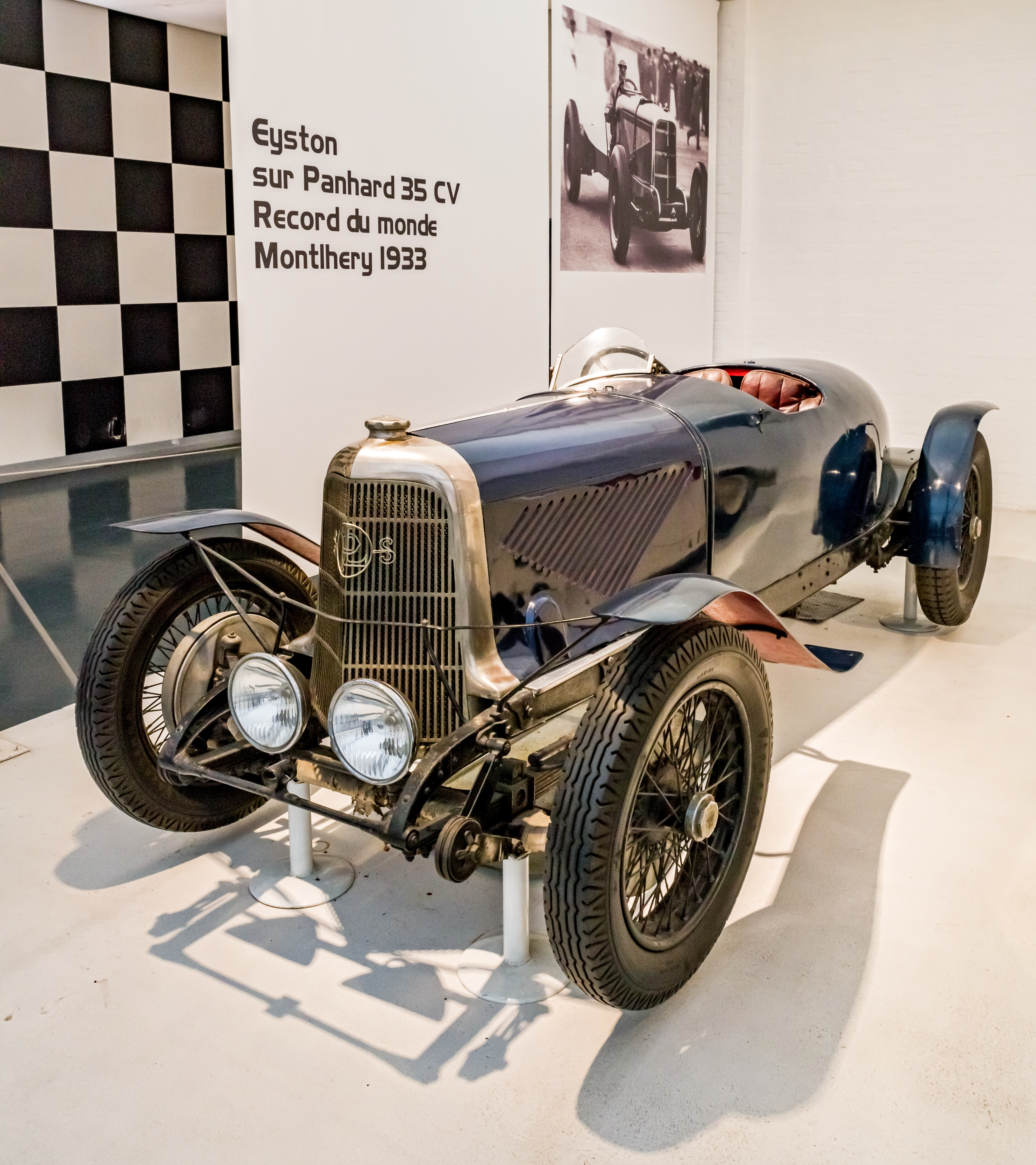 pictures from the Cité de l’Automobile – Musée National – Collection Schlump in Mulhouse, France ptictures from the 10. may 2018